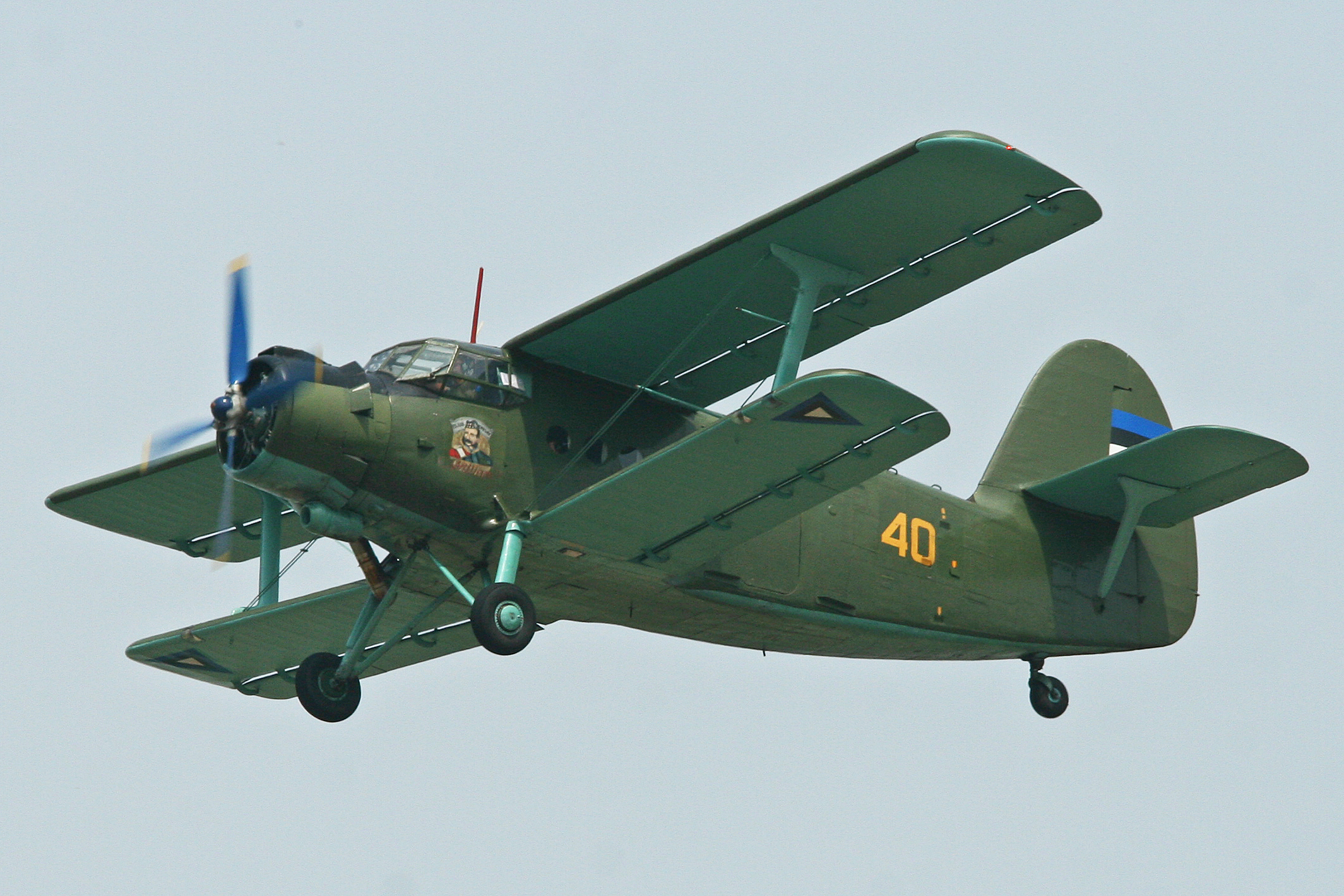 Operated by the Estonian Air Force Amari base flight, this is almost certainly the only serving military biplane to ever attend an IAT or RIAT event. It is (was?) also allocated the Estonian civil registration ES-BAE. c/n 1G43-25. Seen departing the 2013 RIAT at RAF Fairford.